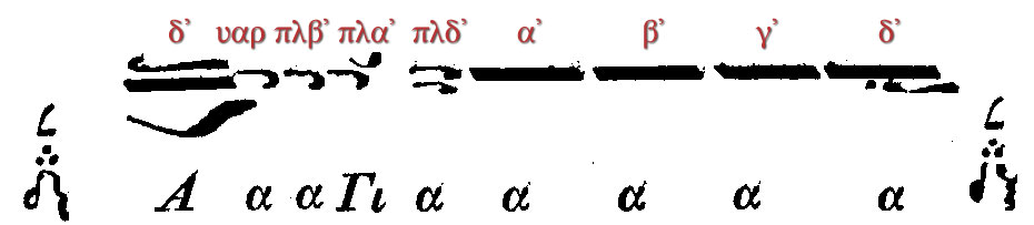 Medieval enechema of echos tetartos